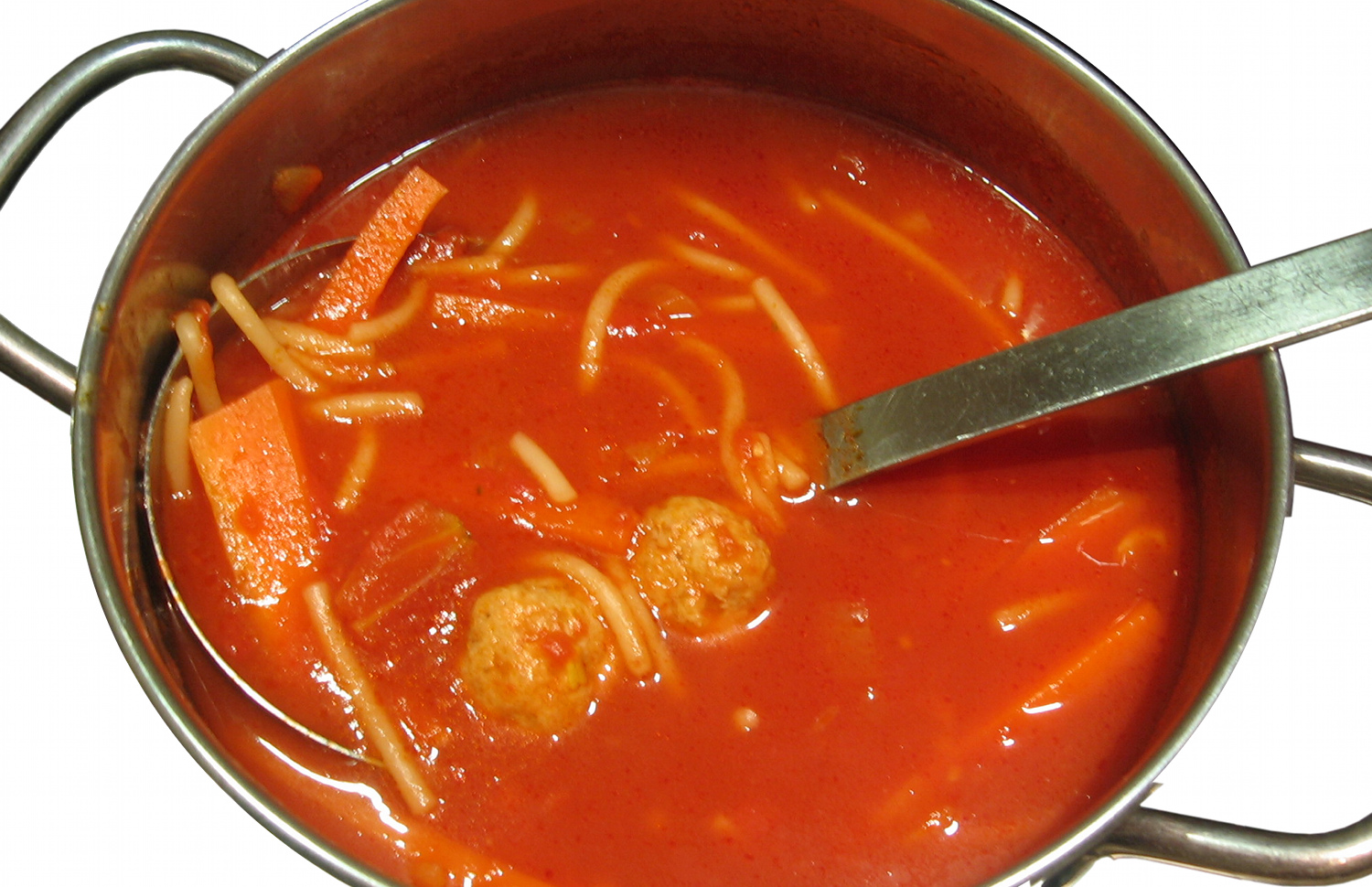 Tomato soup with meat balls, vermicelli and carrot slices